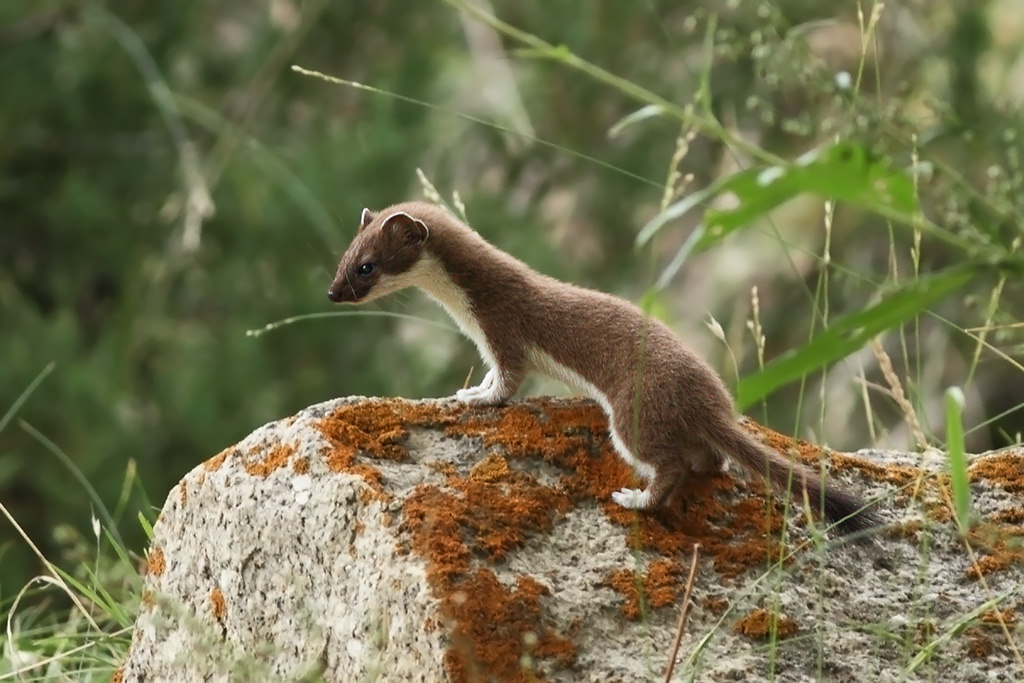 The stoat is a small predator found in temperate forests of Alpine regions. This image is from Alpine parts of Himalayas in North India. They are not afraid of humans. If threatened they attack human beings by biting.